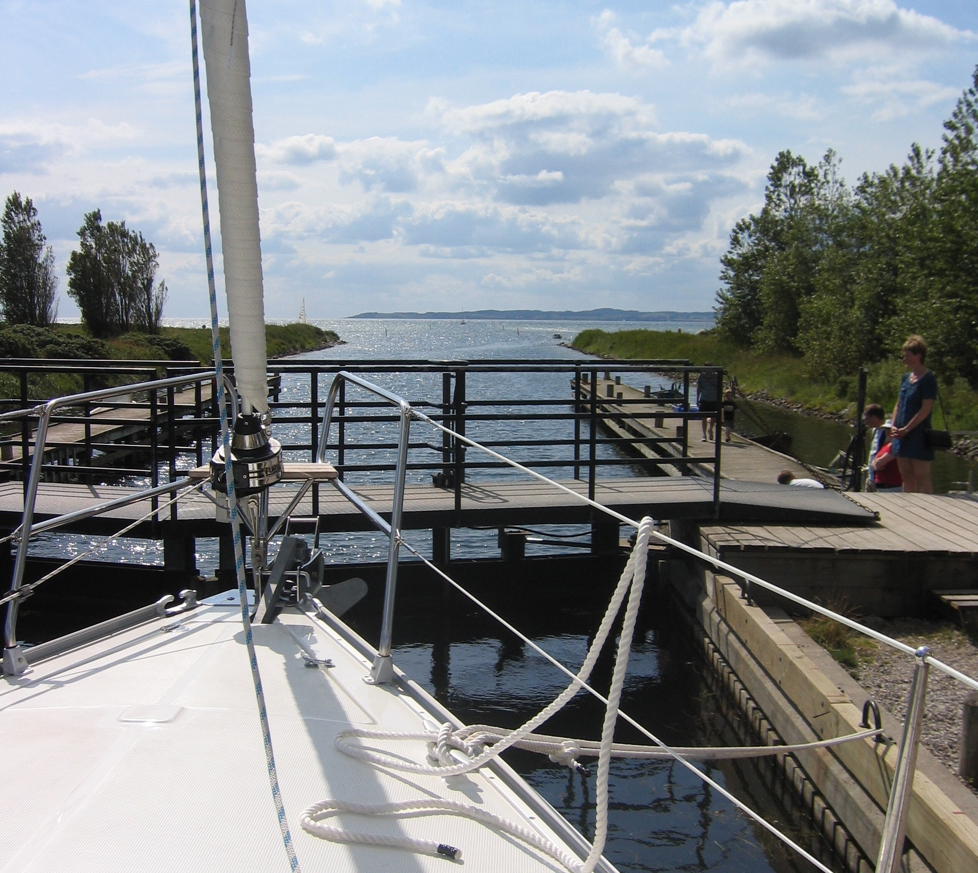 Lock at Øerne in Denmark